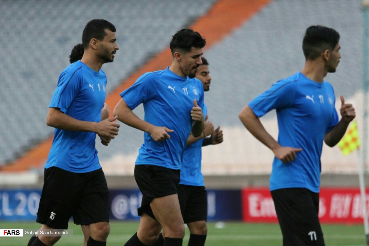 Al Sadd and Persepolis FC training in Azadi Stadium. 2019 AFC Champions League.